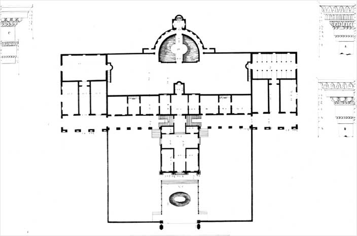 Villa Barbaro in Maser, province of Venice, by Andrea Palladio. Drawing by Ottavio Bertotti Scamozzi, 1781